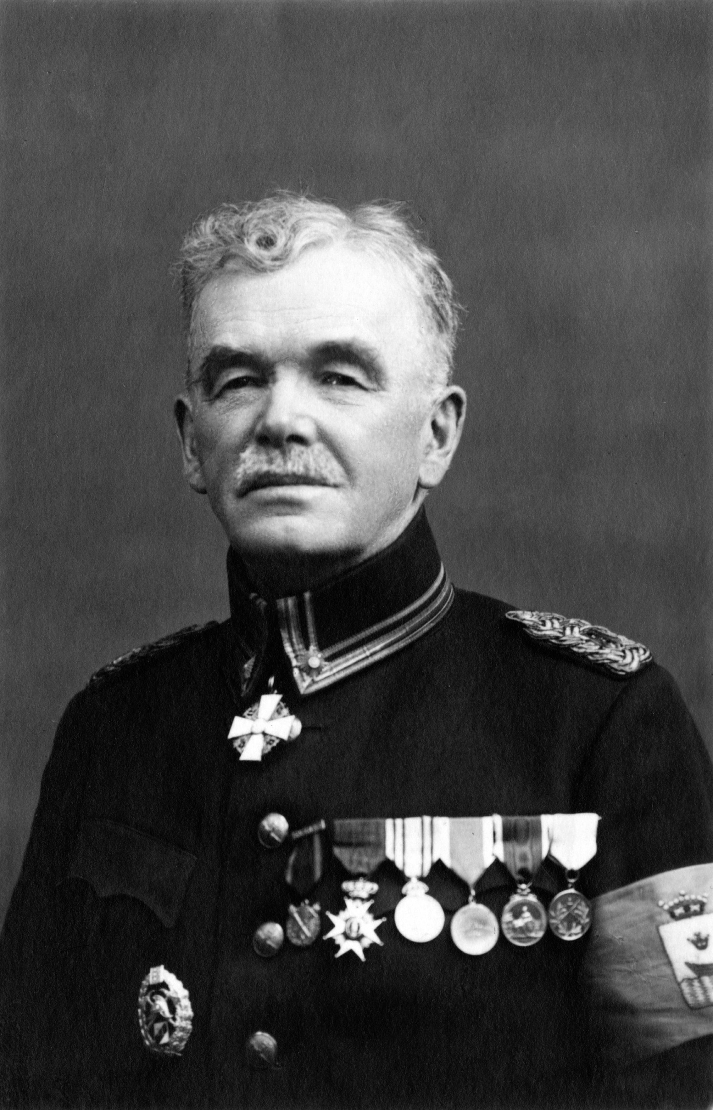 Photograph of the Finnish fire brigade officer and athlete Gösta Wasenius (1863–1939).